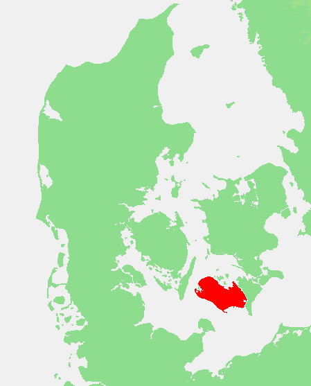 DK - Lolland.PNG